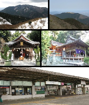 Gose montage